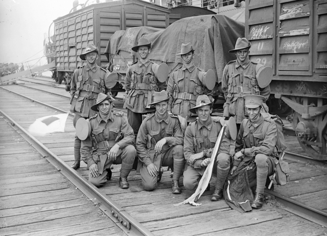 Reinforcements for the Australian 37th Battalion prior to embarkation in Melbourne, Victoria, February 1917